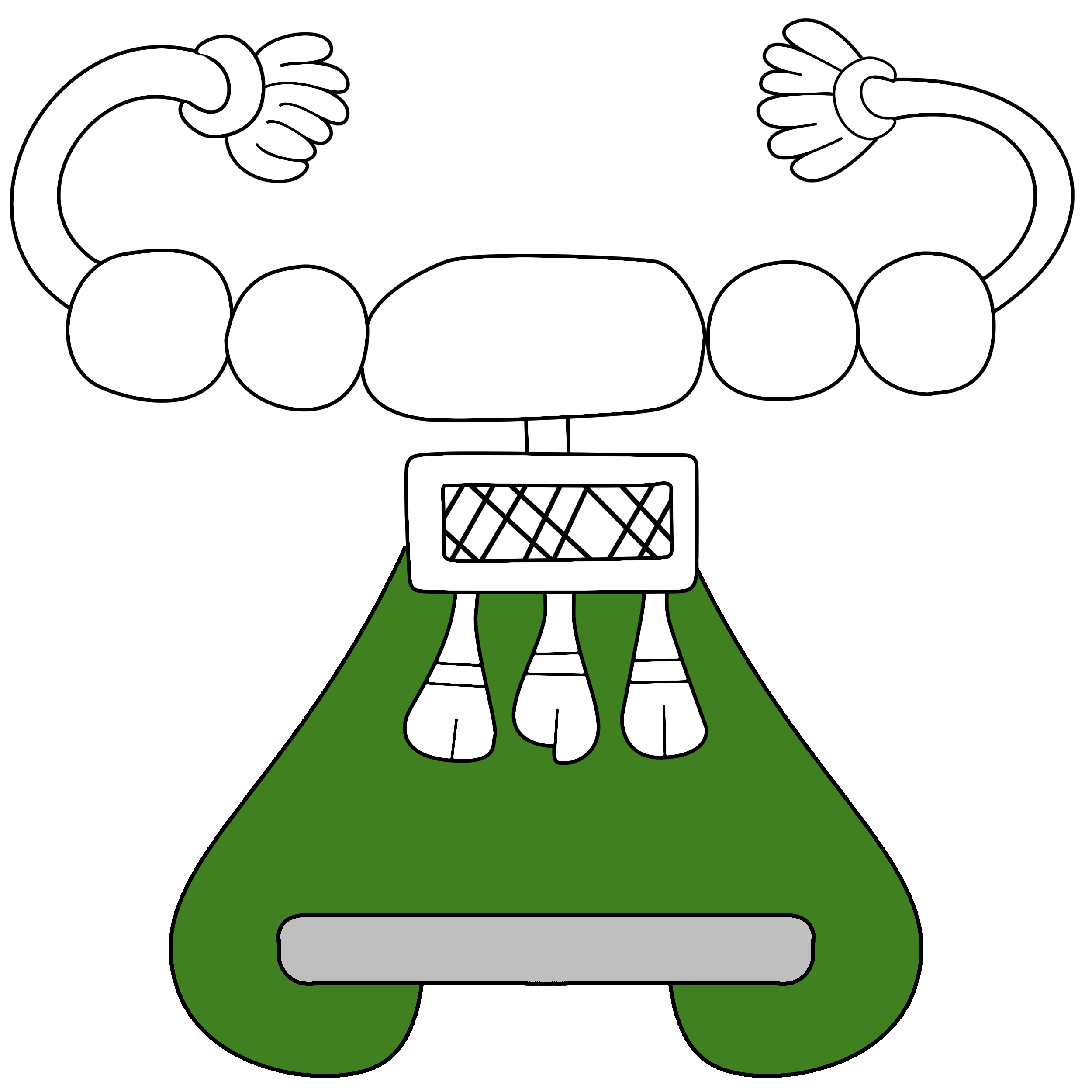 The seal of the Lordship of Kuscatan based on the "Lienzo de Tlaxcala" with the symbol of an altepetl